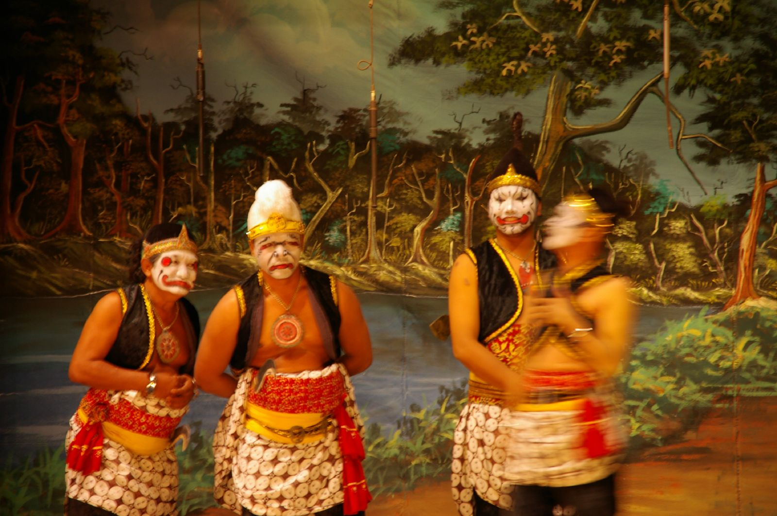 Wayang topeng, traditional theater of Javanese people.